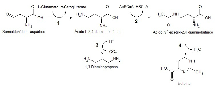 Ectoine biosynthesis